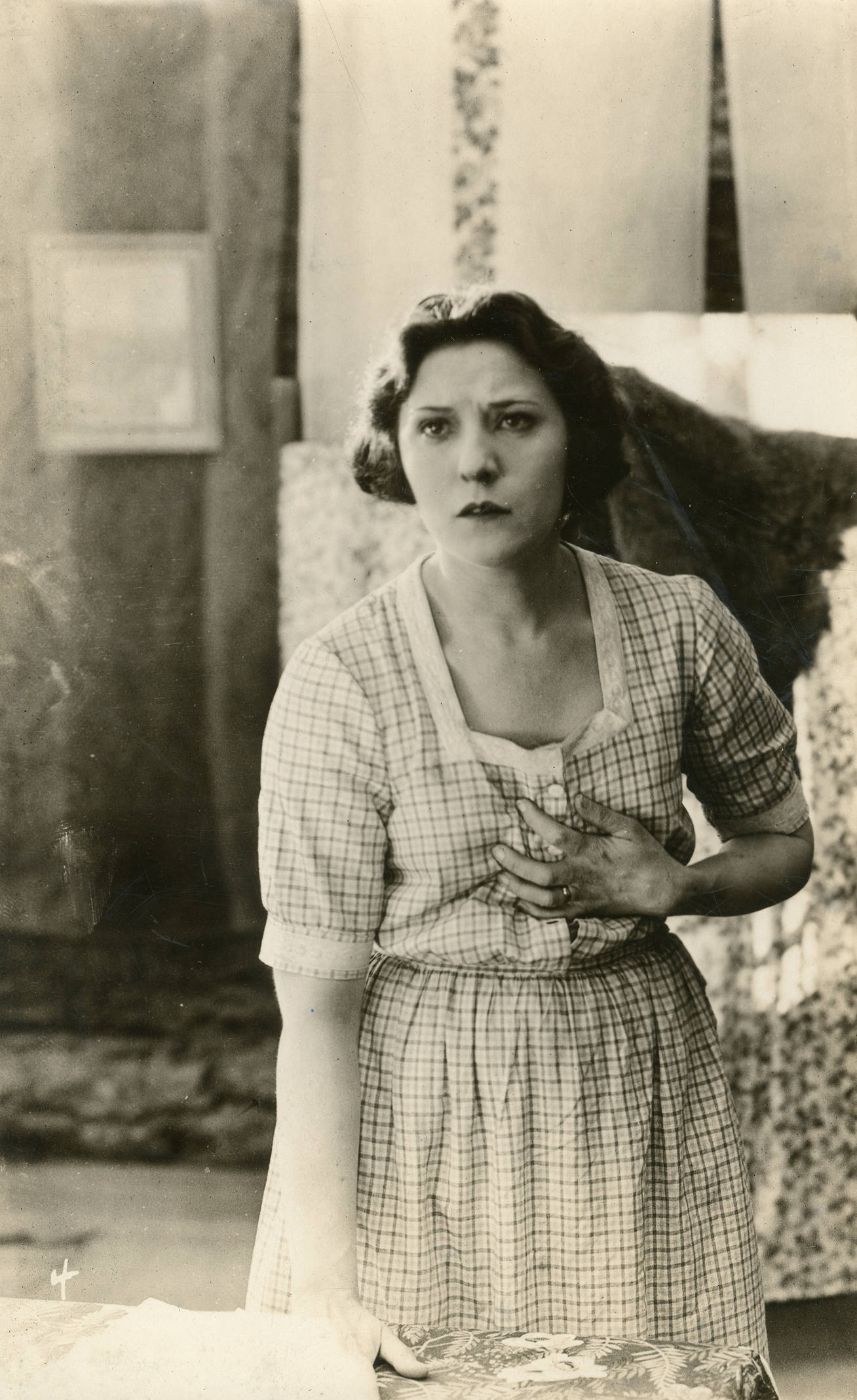 Lillian West (1886 – 1970), silent film actress Subjects: actresses